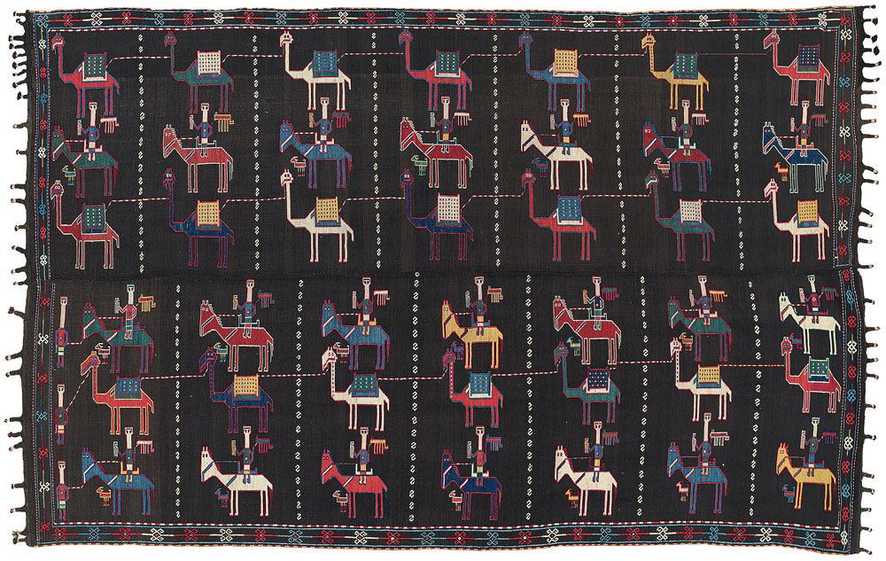 Lot 266 – A Shadda Blanket, South Caucasus, first half 19th century. Weft face structure with extra weft wrapped patterning, two joined panels, stitched onto a material backing, overall very good condition. 9ft.4in. x 5ft.11in. (285cm. x 180 cm.) £20,000-25,000